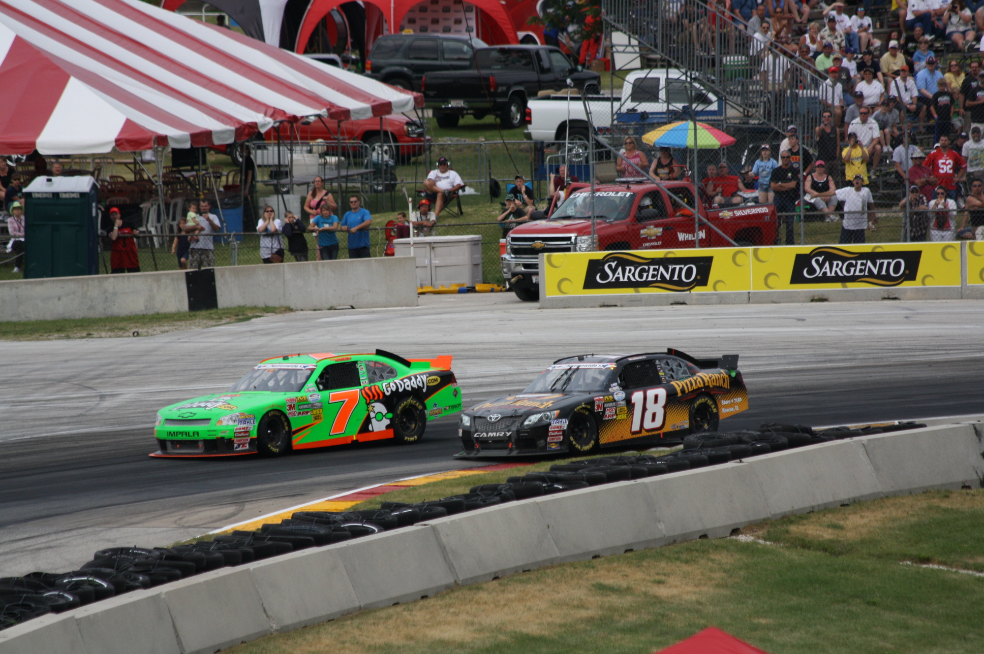 Danica Patrick NASCAR Nationwide Series car being passed by Michael McDowell at Road America at the 2012 Sargento 200.